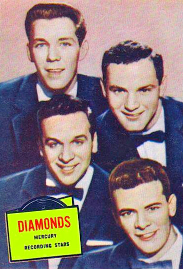 Trading card photo of The Diamonds. In 1957, Topps gum cards issued a series of movie stars, television stars and recording stars. They were part of their recording stars cards.